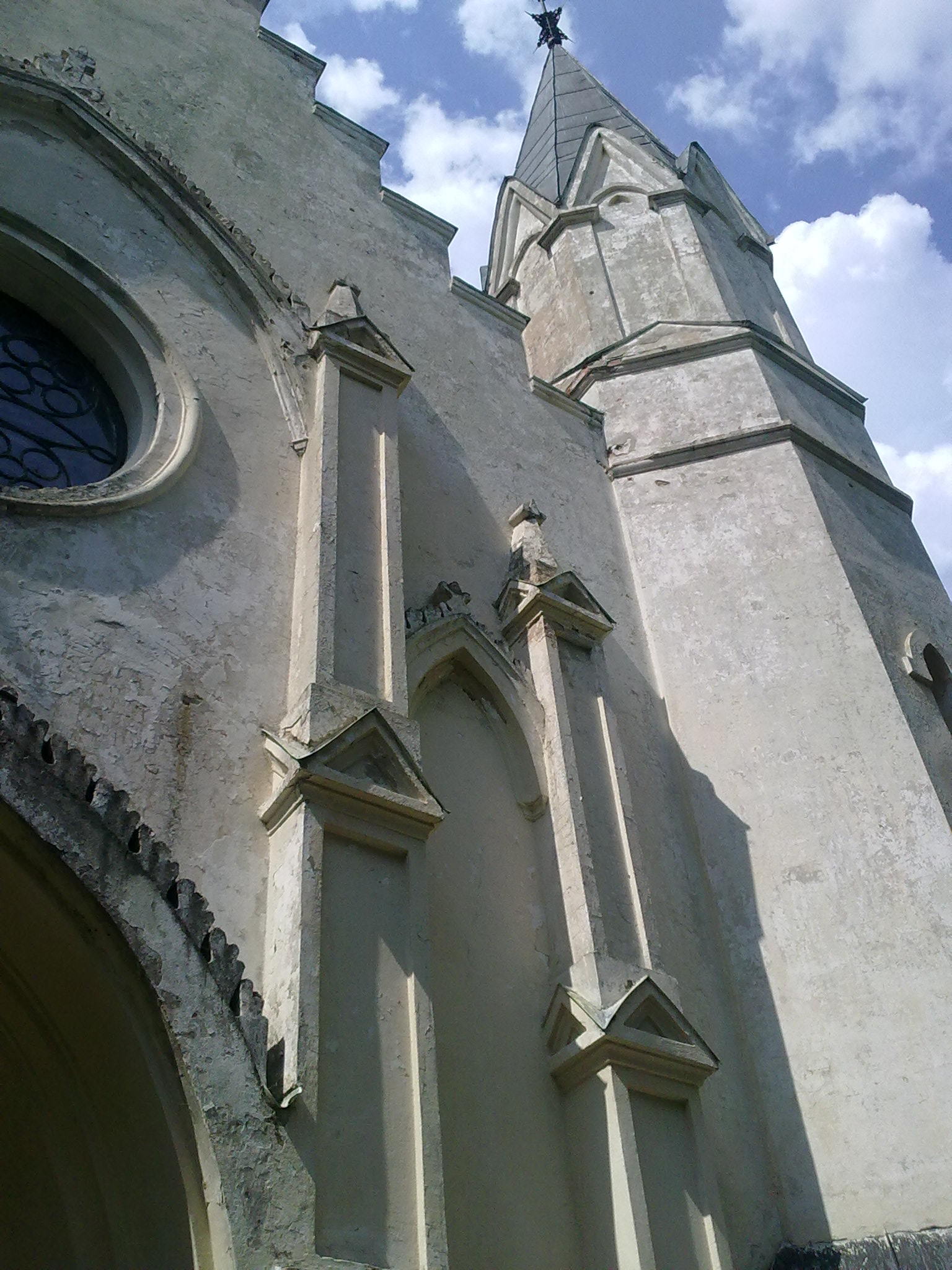 Беларуская (тарашкевіца): Касьцёл. в. Раўбічы This is a photo of Belarusian heritage monument. Reference number: 613Г000373 ( WLM)